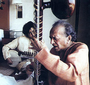 Learning from Panditji